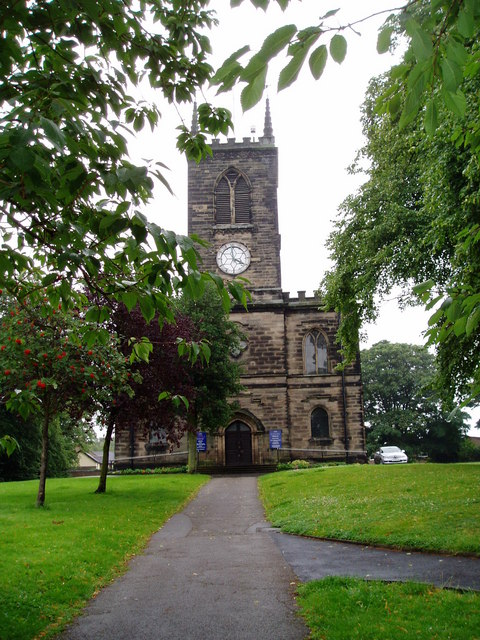 St Michael's Church, Stone Built in 1753, on the site of the former St Ulfred's church, which collapsed in 1749.